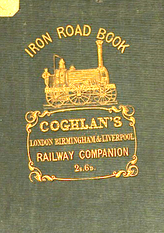 Cover of: Iron Road Book and Railway Companion from London to Birmingham, Manchester, and Liverpool